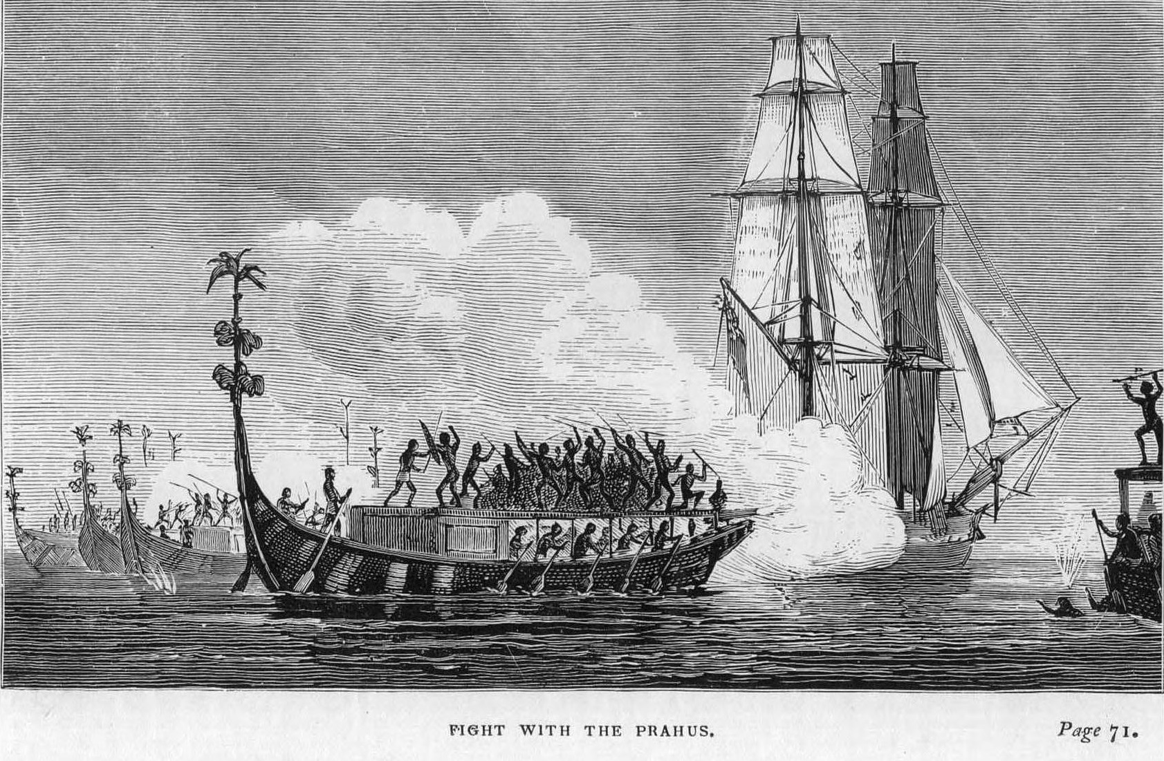 Excerpt from the book: The Dyak piratical vessels are called “Bang Kongs.” Although they are a hundred feet in length by ten in beam, they draw but little water, and are both light and faster than the Malay prahus. They have long overhanging stems and sterns, are propelled by eighty paddles, and are as swift as any craft afloat. Some mount a few small swivels, and each carries a certain number of Malays armed with muskets, besides which they have their regular crew of Dyaks, whose weapons are spears. From drawing so little water they are much dreaded, as they can run up the shallowest river, when their savage crews, landing, commit most horrible atrocities on the inhabitants living near the banks. Uploader note: The image depicts Iban Dayak bangkong fleet attacking brig Lily.